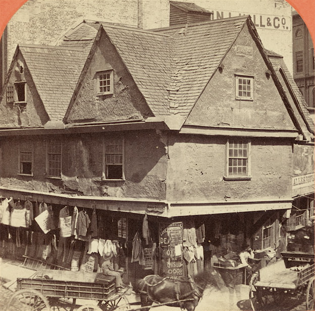 Old Feather Store, Dock Square. American Stereoscopic Views. Boston and Vicinity. Boston Public Library Department: Print.